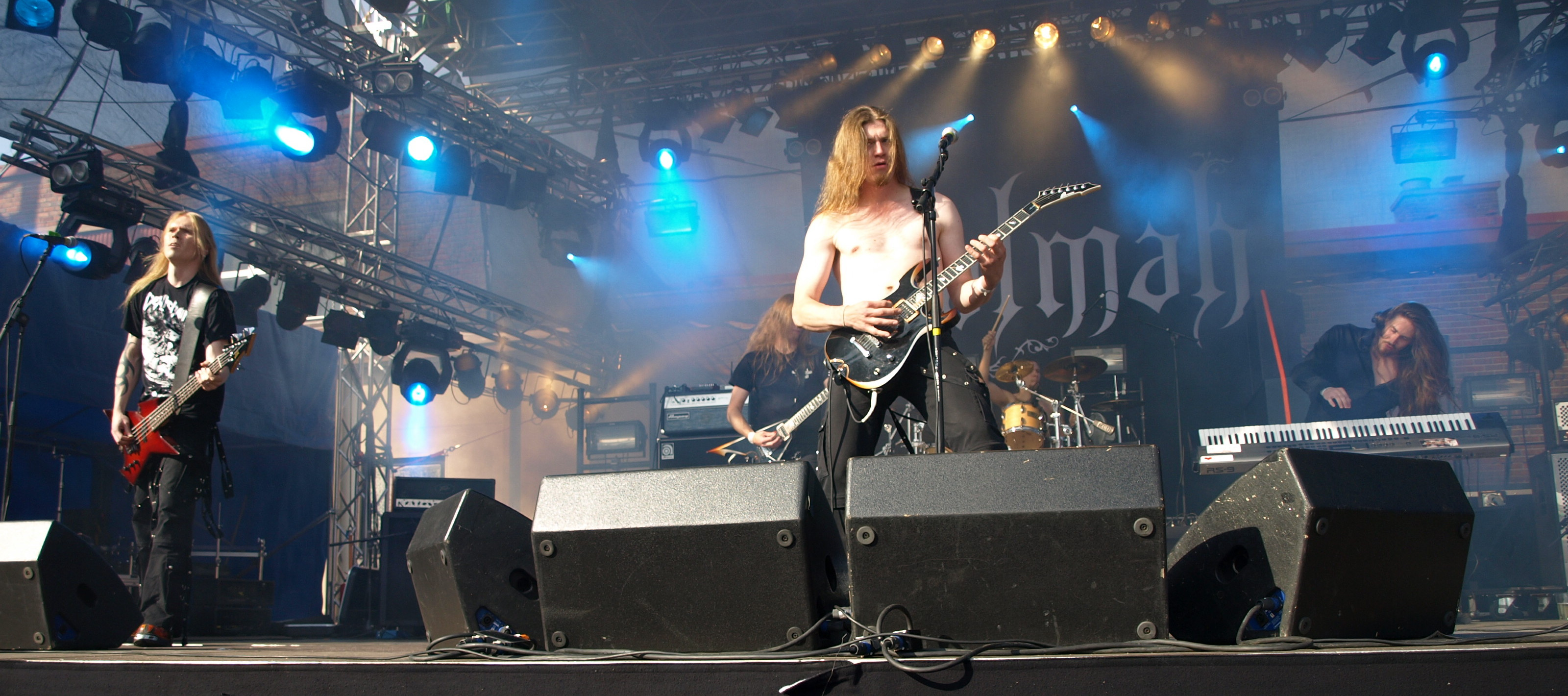 Finnish melodic death metal band Kalmah live at Jalometalli 2008 in Oulu.